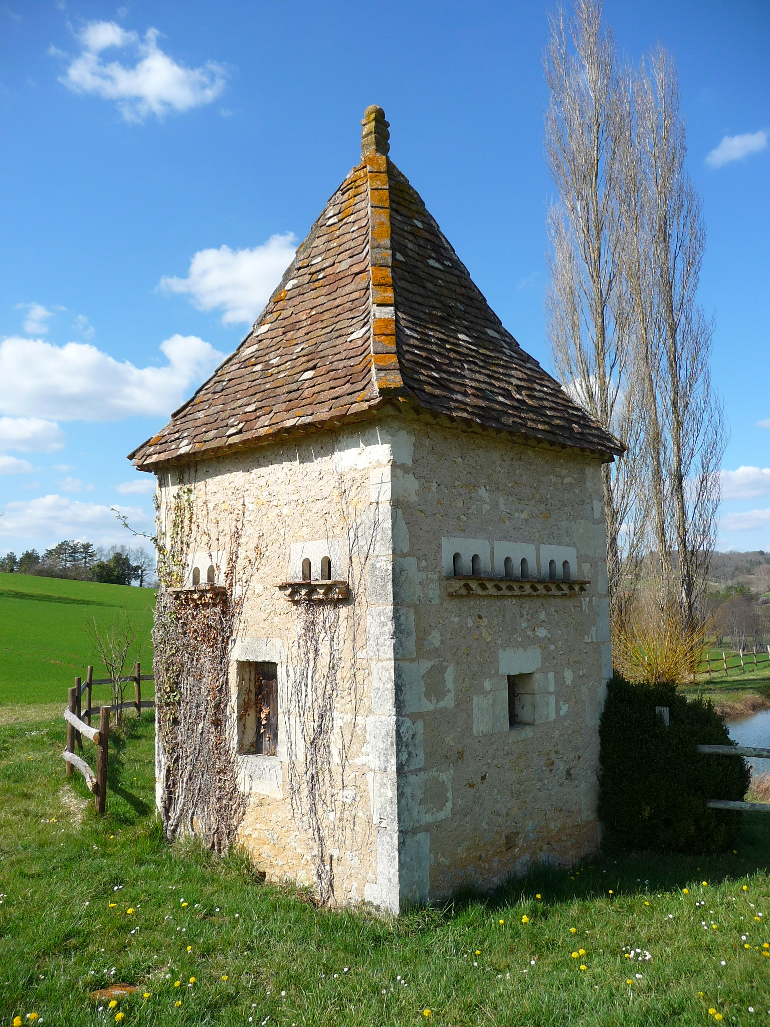 Montagnac-la-Crempse (Dordogne)